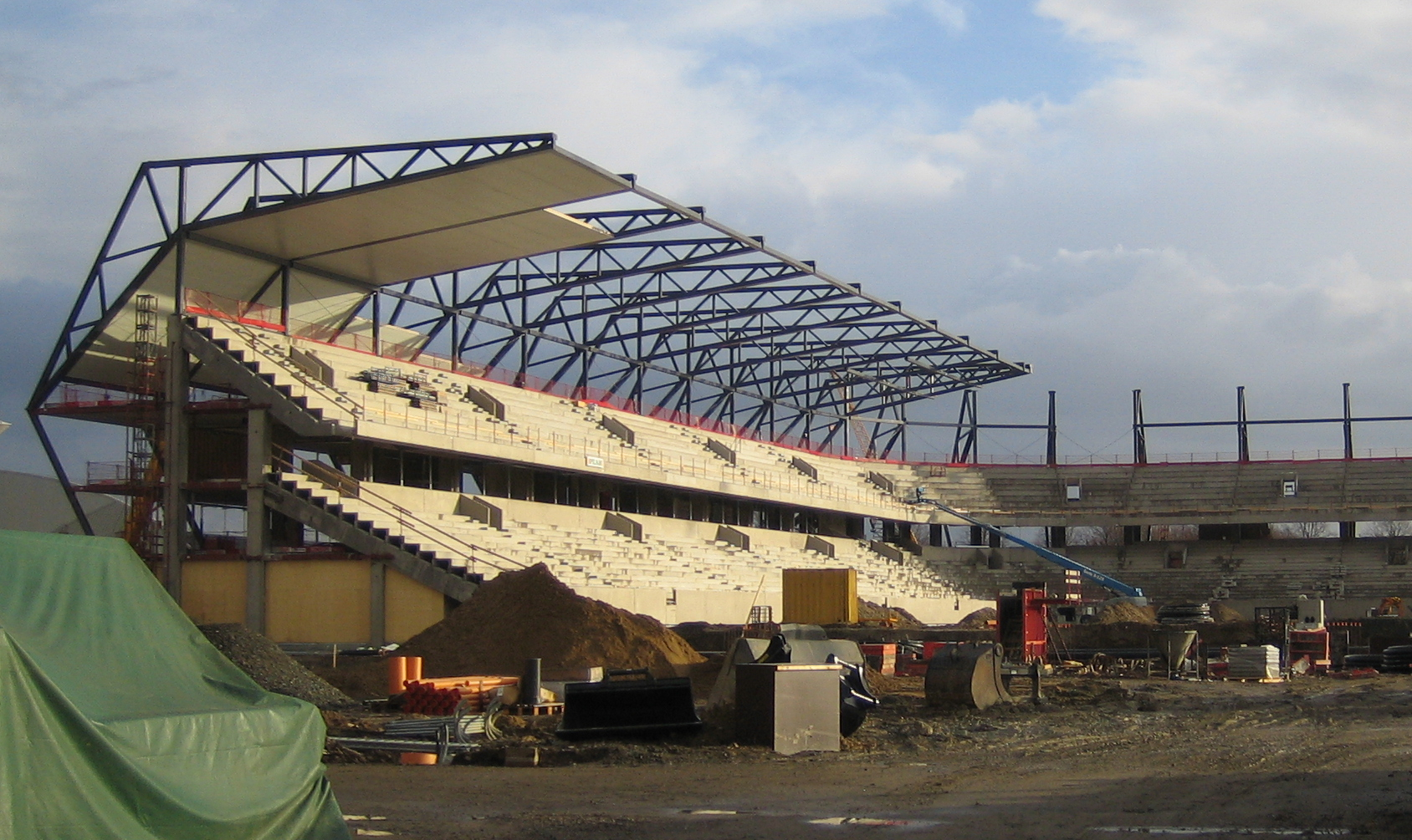 The new Malmö stadion, building in progress.